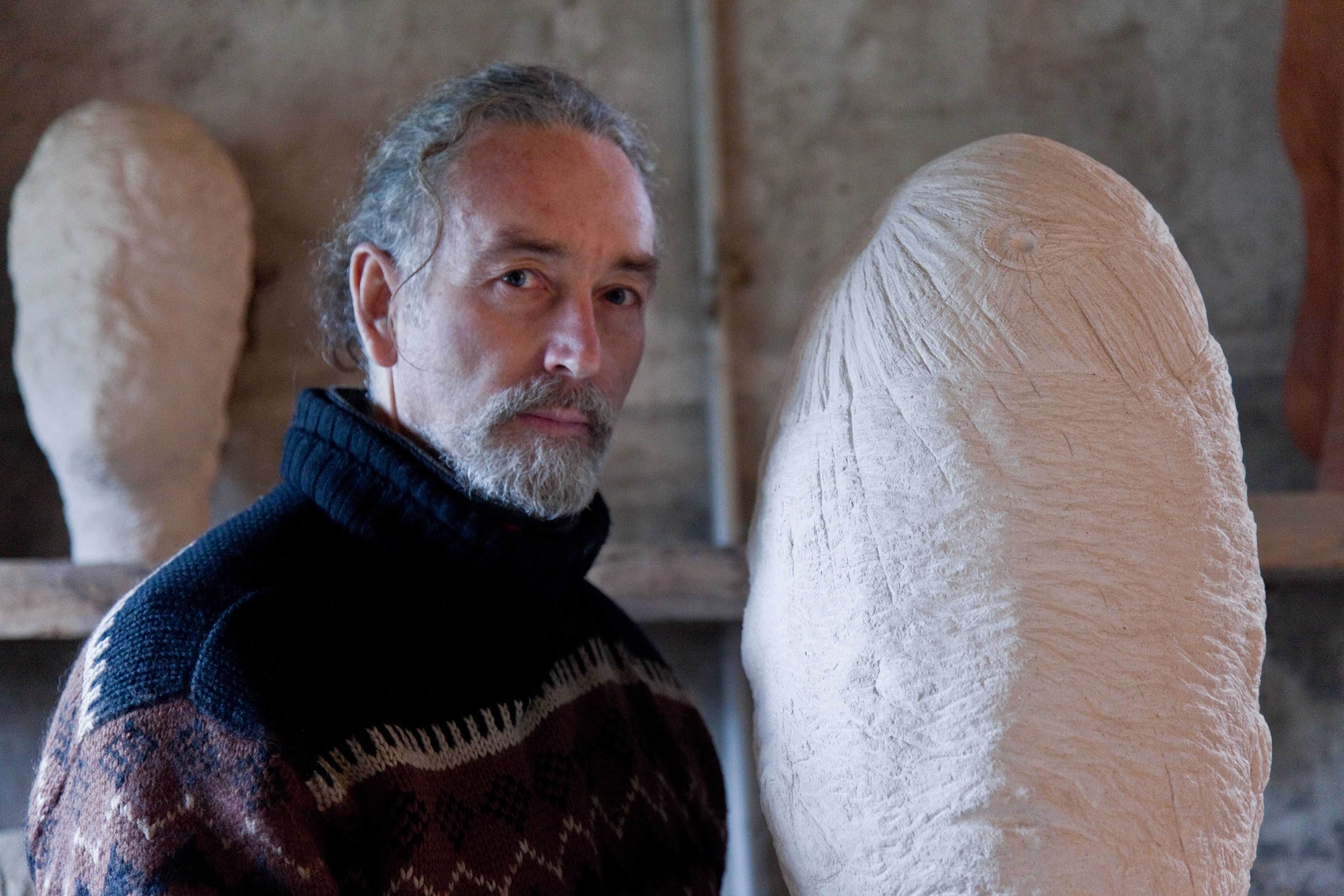 Guy Lydster